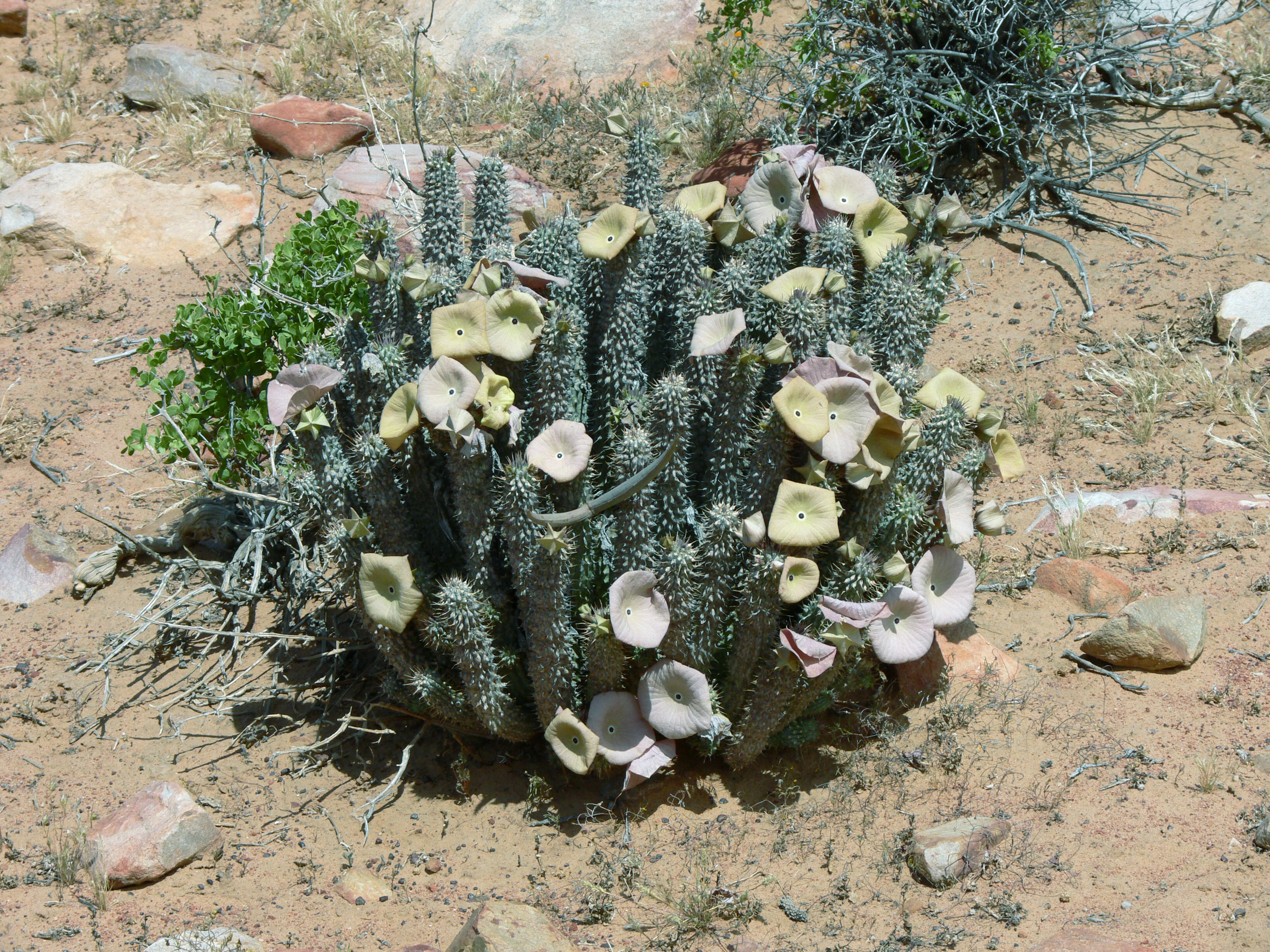 Bushman's Hat, Queen of the Namib, Hoodia gordonii (Masson) Sweet ex Decne, Biedouw Valley, Cederberg Local Municipality, Western Cape, South Africa